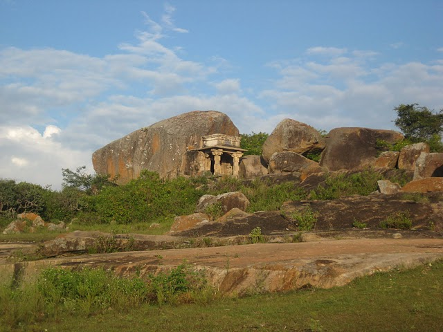 Bhadrabahu Goopha on Chandragiri